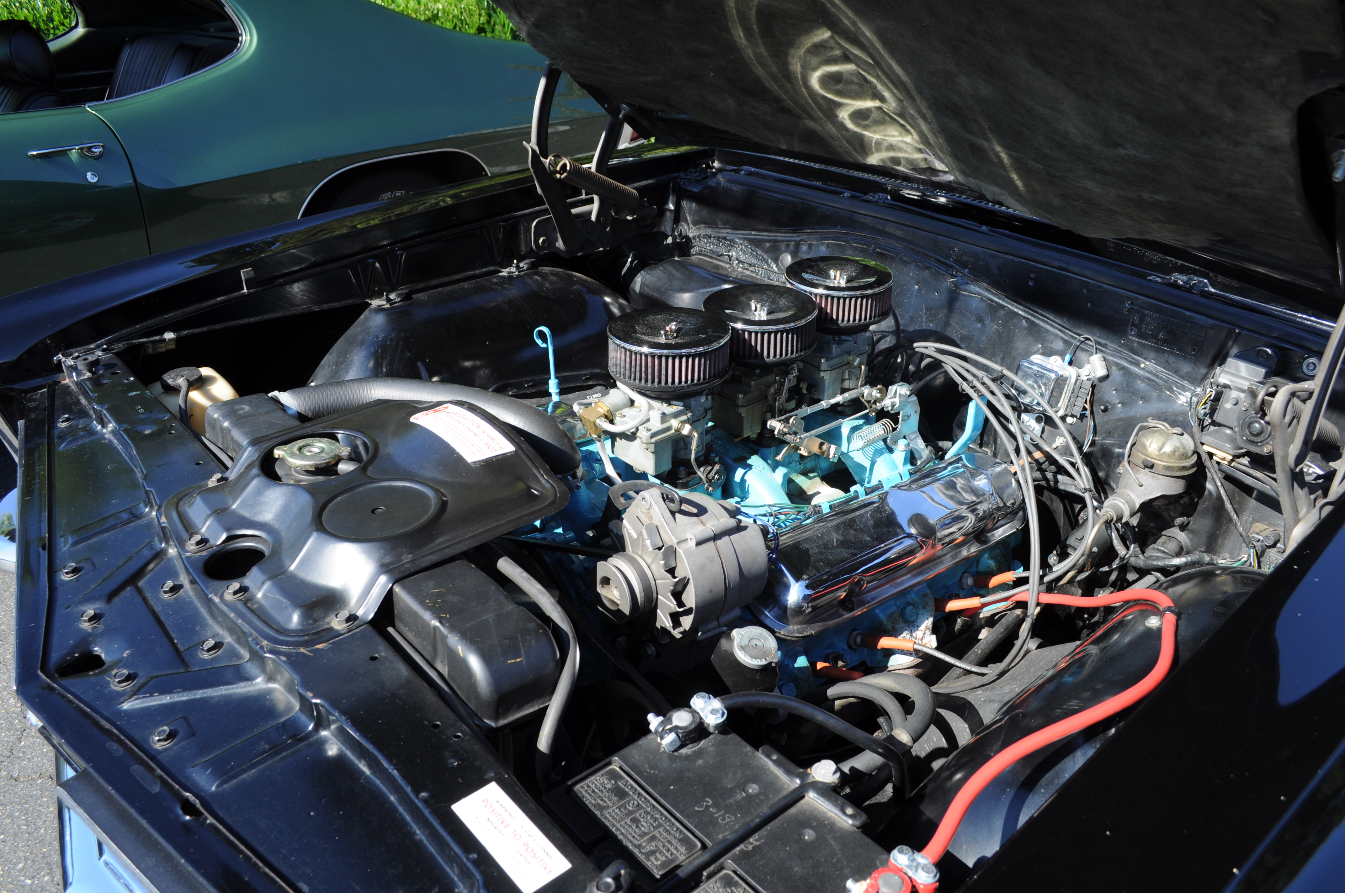 Engine, 1965 Pontiac GTO, 4th Annual Chad Shanks Memorial Car Show, Wedgwood Broiler, Wedgwood, Seattle, Washington, USA